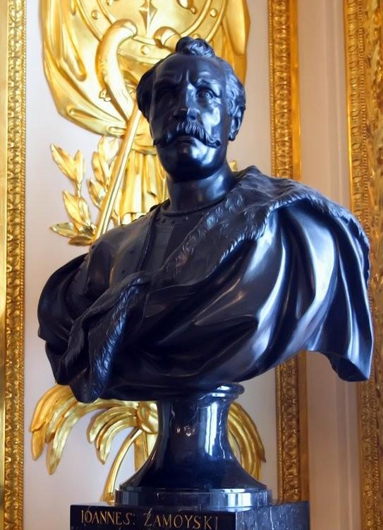 Bronze bust of Jan Zamoyski - one of 22 effigies of Famous Poles by André Le Brun in the Knight Hall.